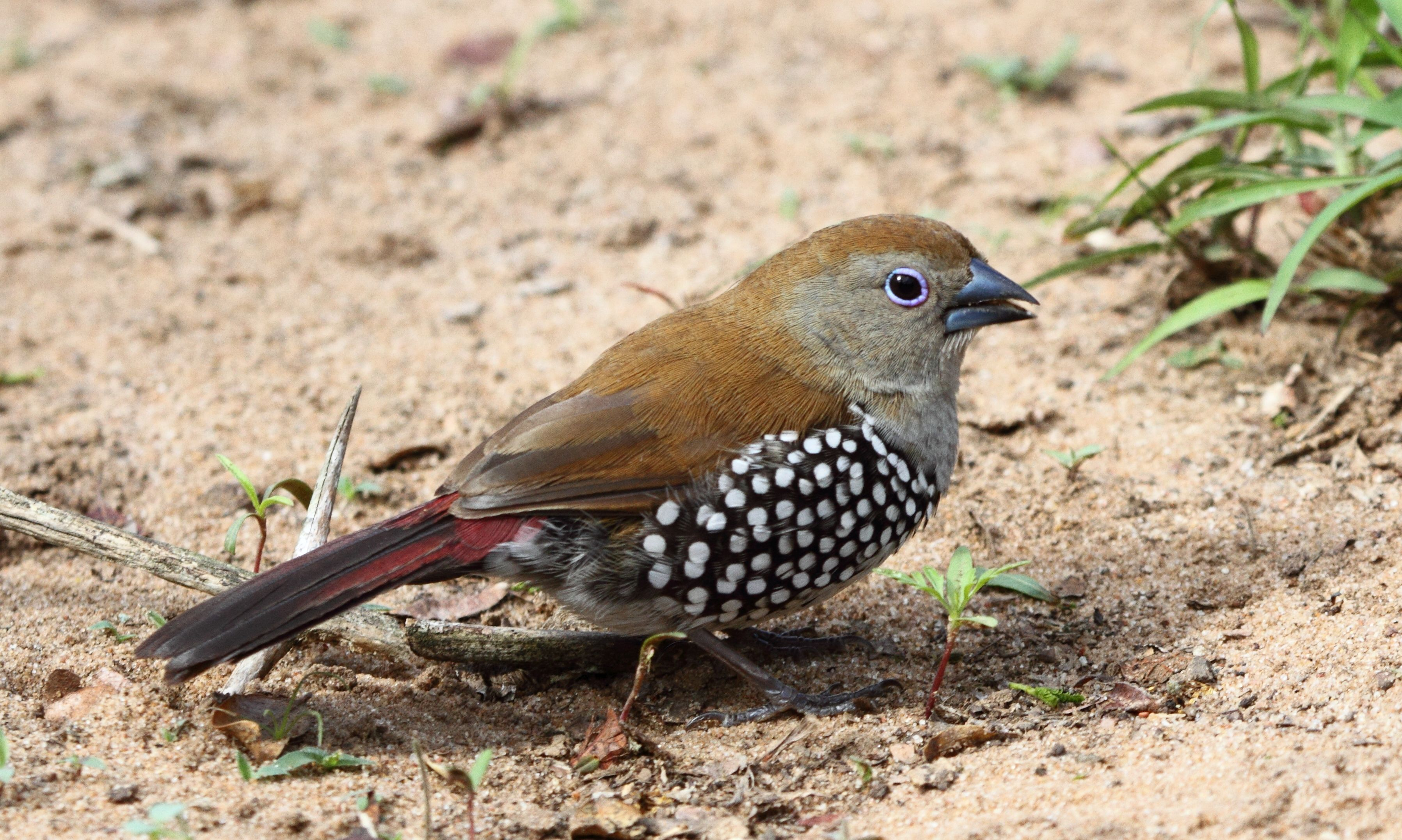 Female pink-throated twinspot (Hypargos margaritatus) at Kumasinga hide, Mkhuze Game Reserve.